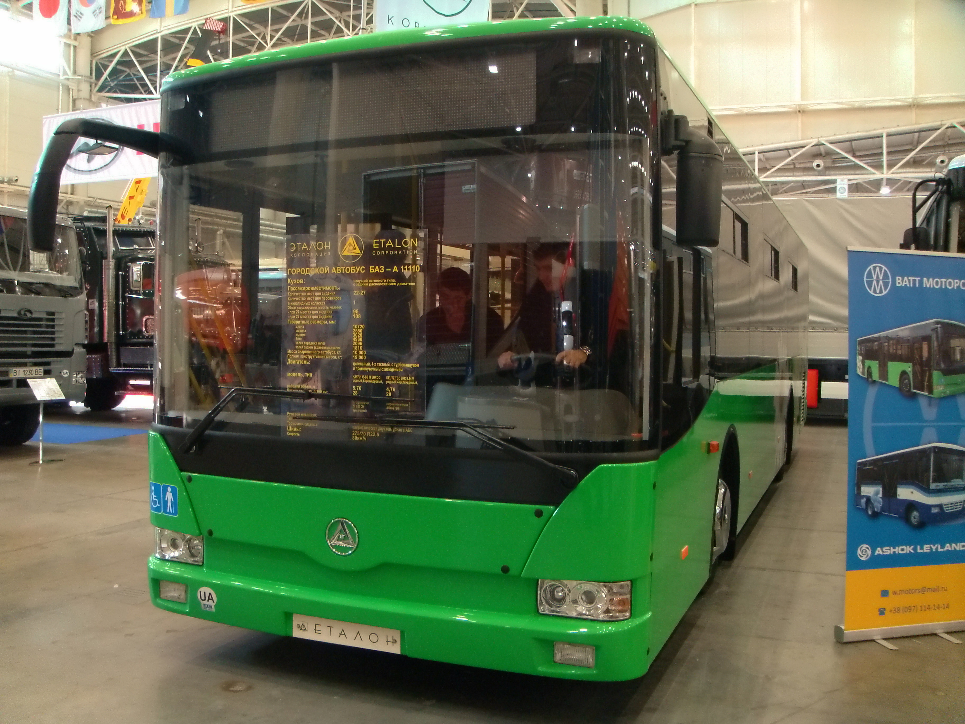 BAZ A11110 bus in Kiev, Ukraine. TIR 2010.